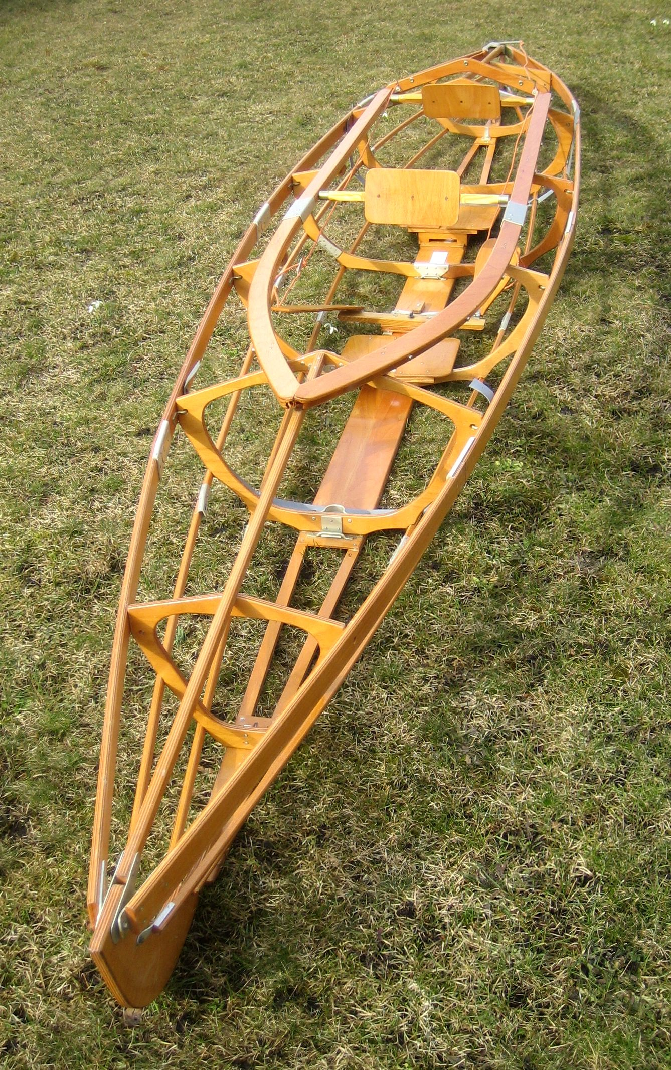 Wodden framework of a MTW Kolibri IV foldable kayak (East Germany 1989)